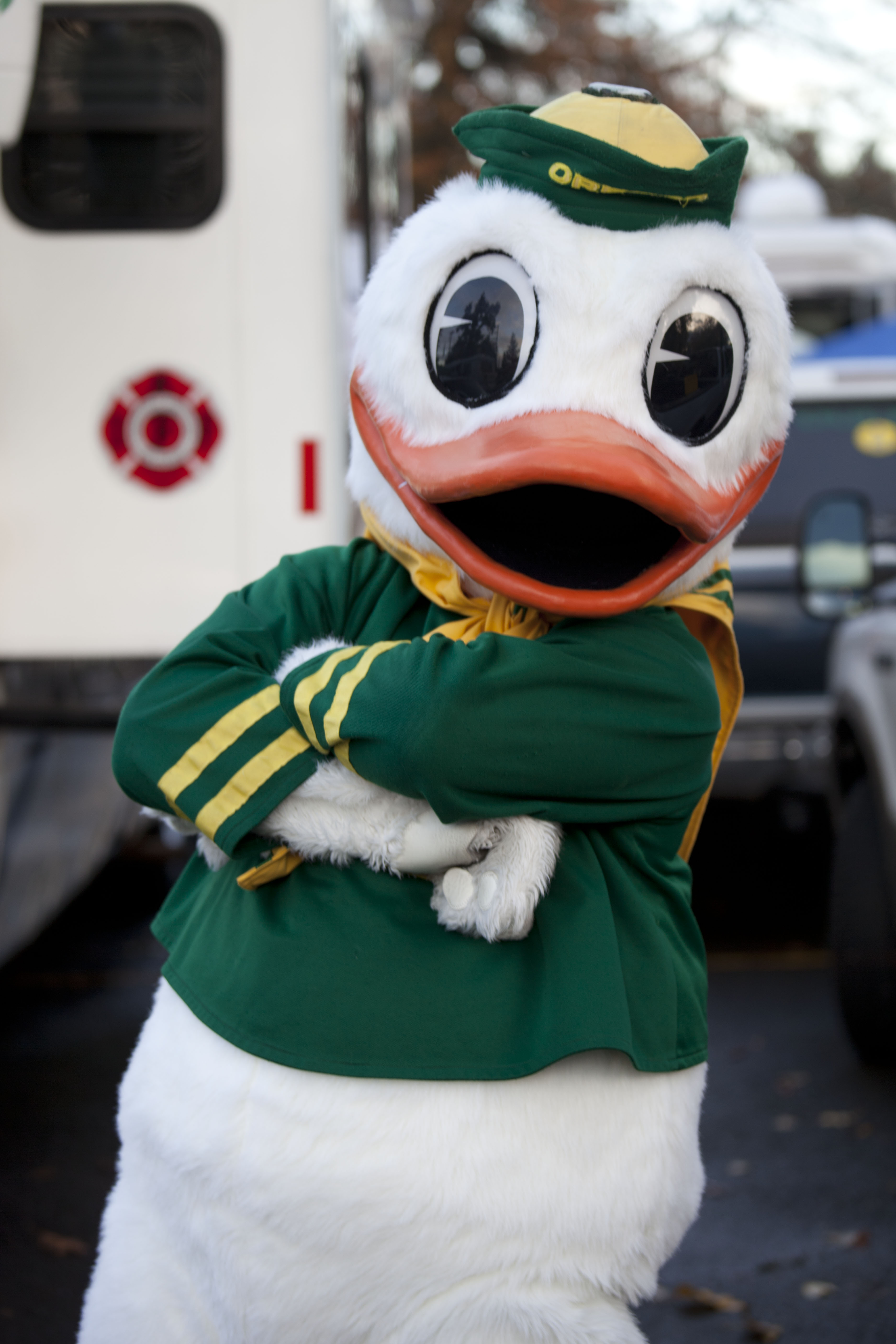 The Oregon Duck in 2011